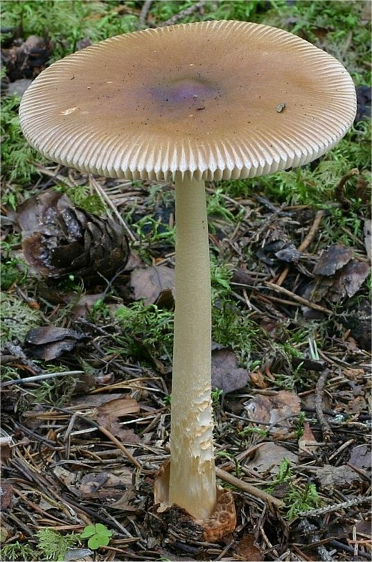 Amanita fulva from Dalarna, Sweden